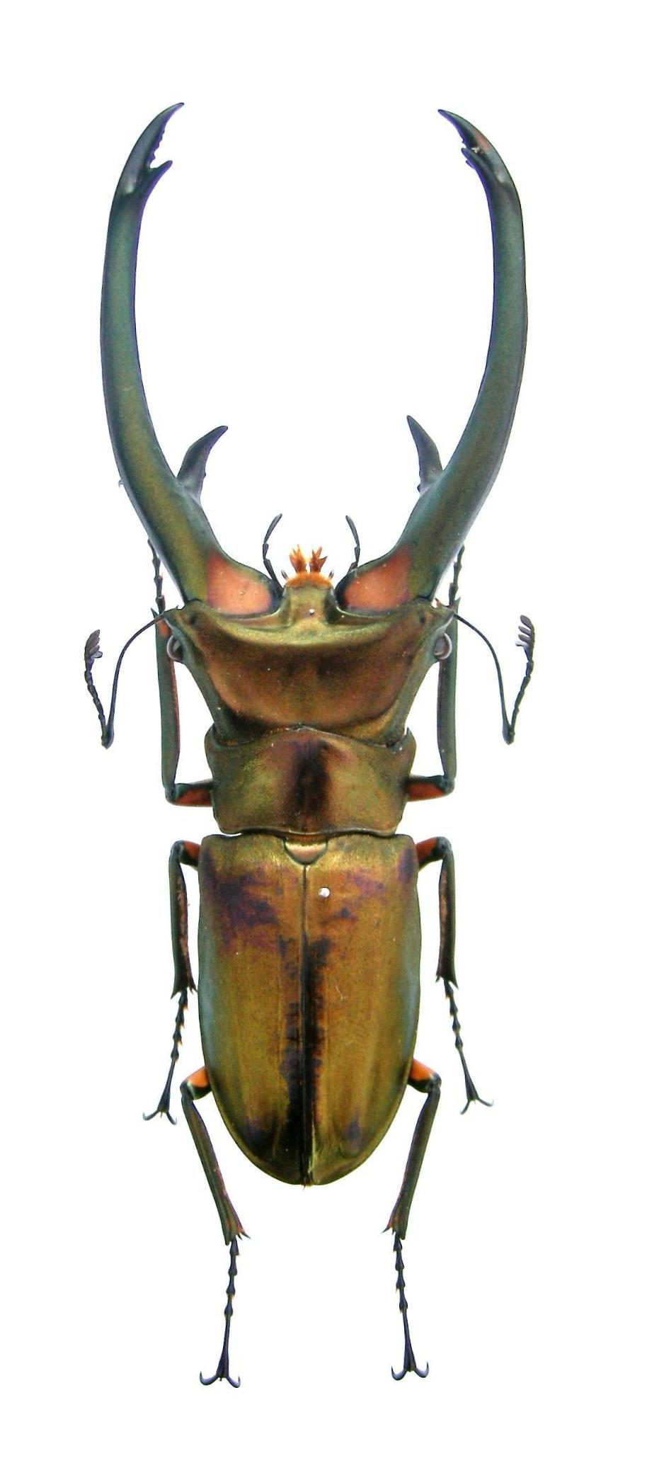 Cyclommatus elapus elapus